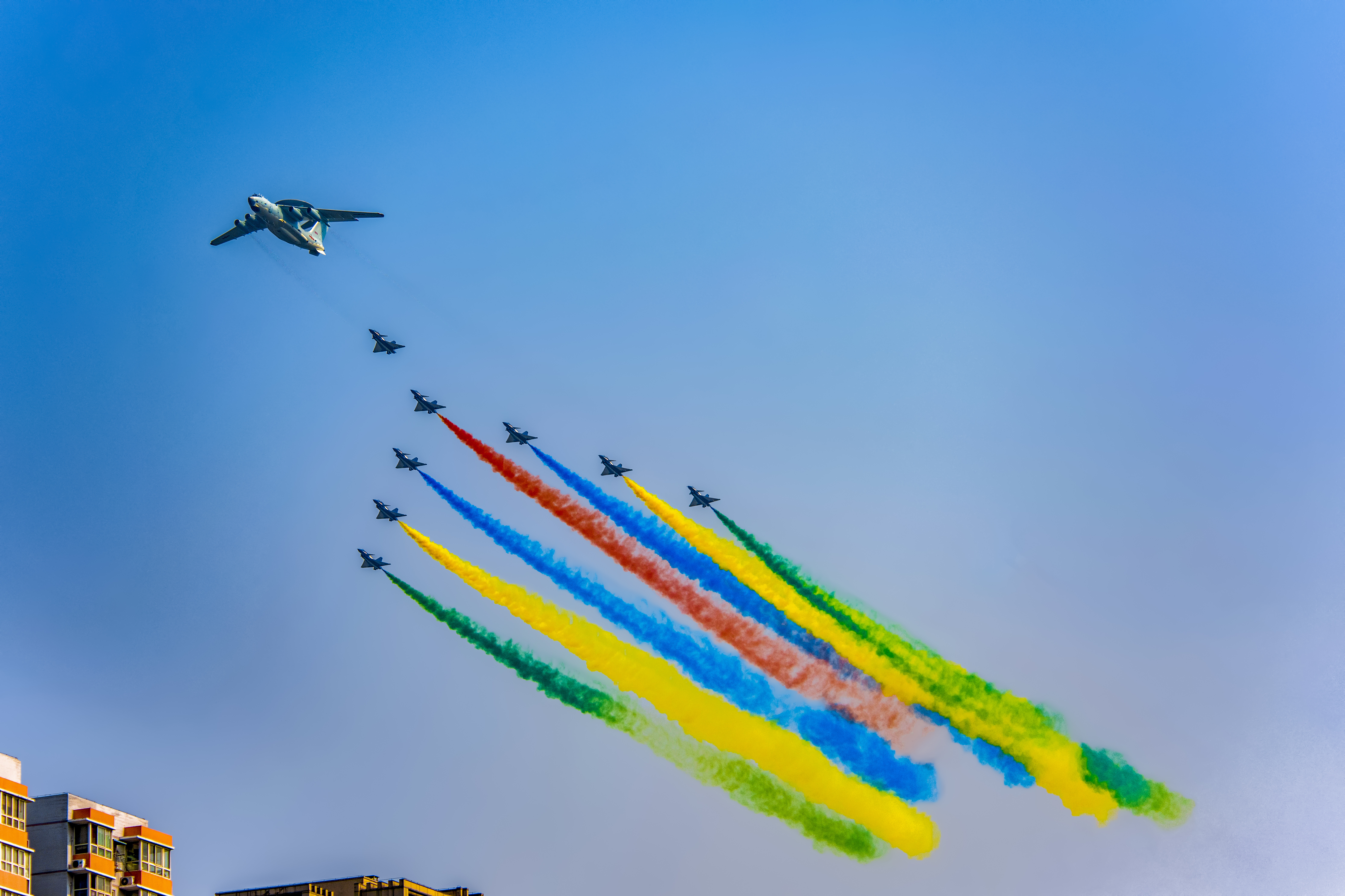 A KJ-2000 and aerobatic J-10s. Let's start!